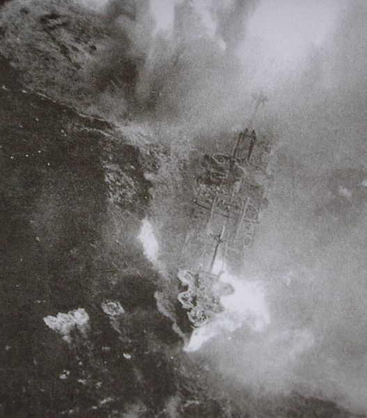 Imperial Japanese Army landing vehicle carrier Kibitsu Maru under attack by aircraft of TF.38 near Formosa. The ship in this photo is often confused with Shinshū Maru since both ships were present during this attack. But as the ship in the picture shows resemblance to a merchant ship, it is evident that this cannot be the Shinshū Maru